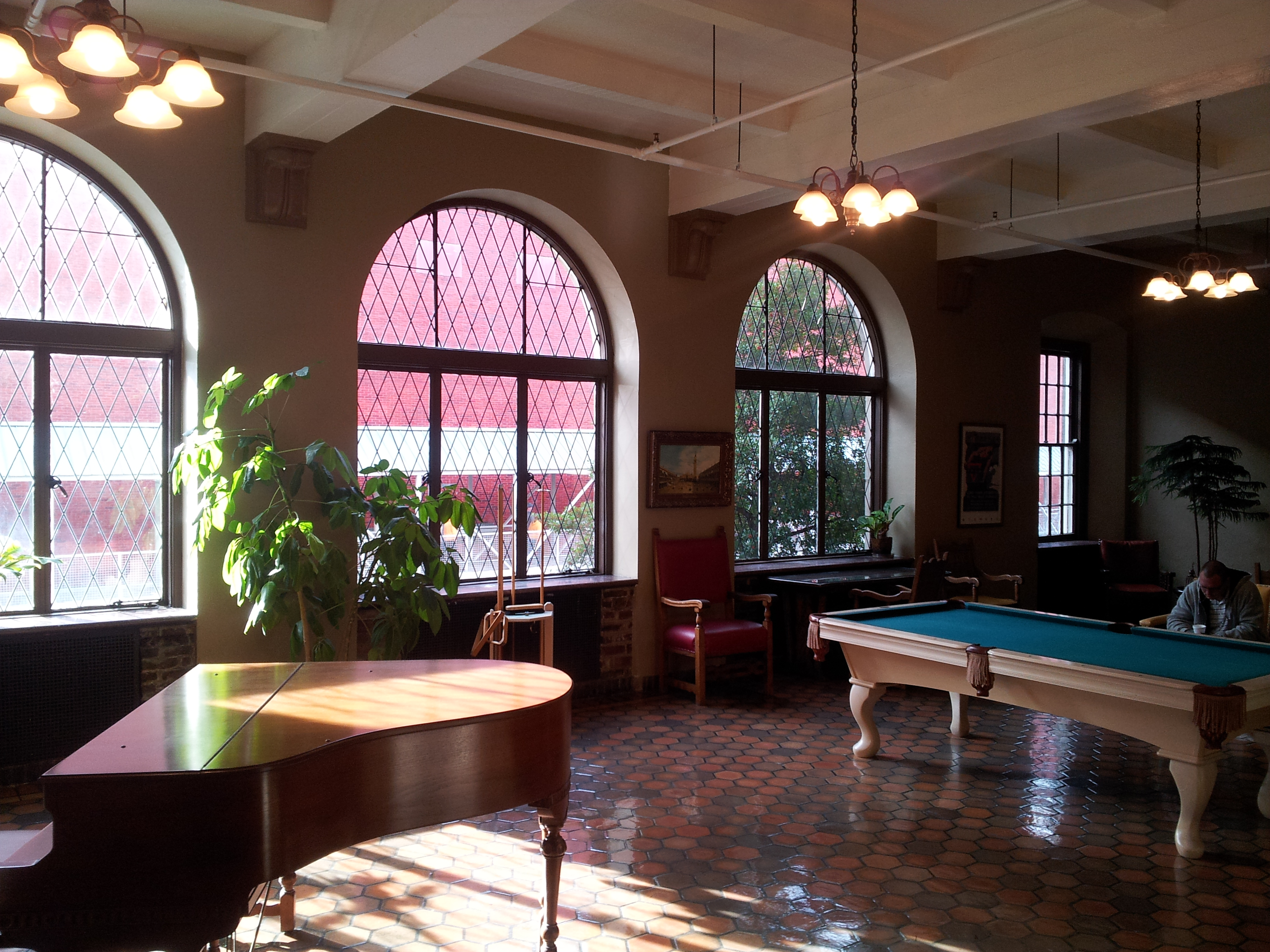 Knoxville Downtown YMCA Interior 9 Nov 2013